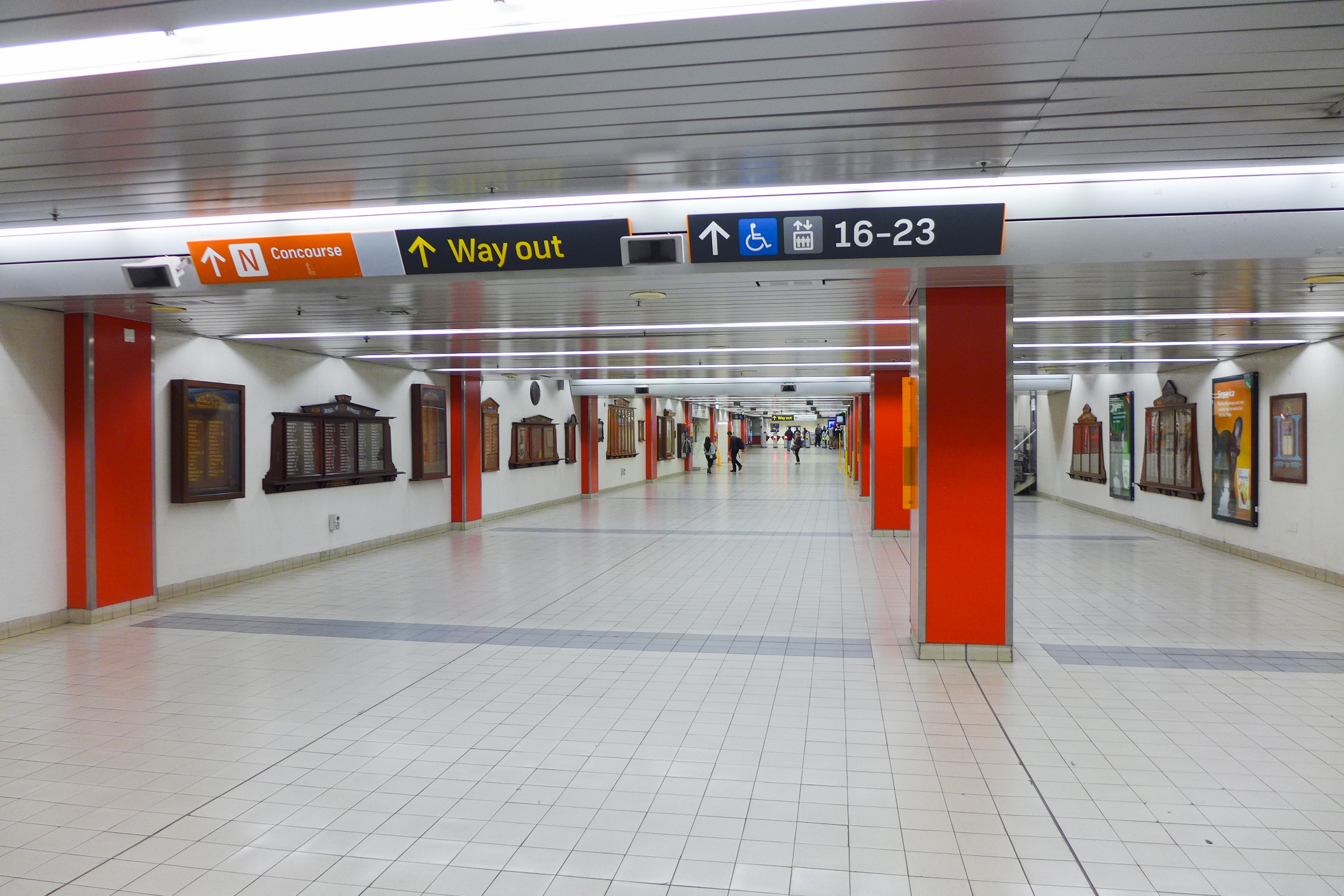 Central railway station Sydney Basement access